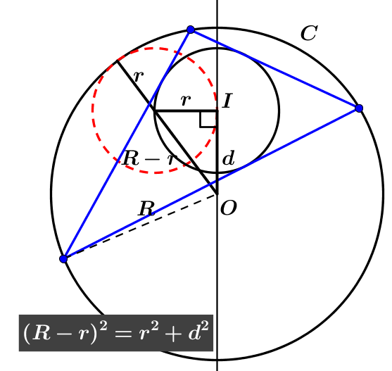 A lemma for Euler's theorem in geometry.